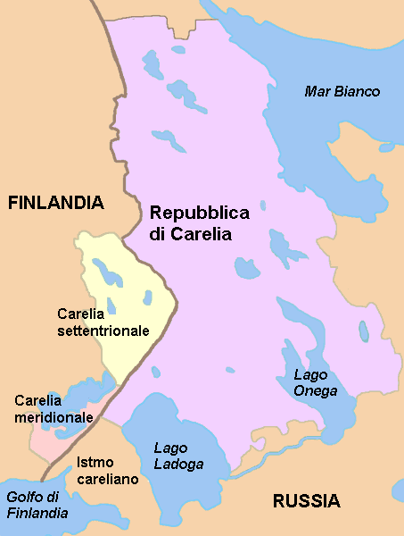 Map of today Karelia